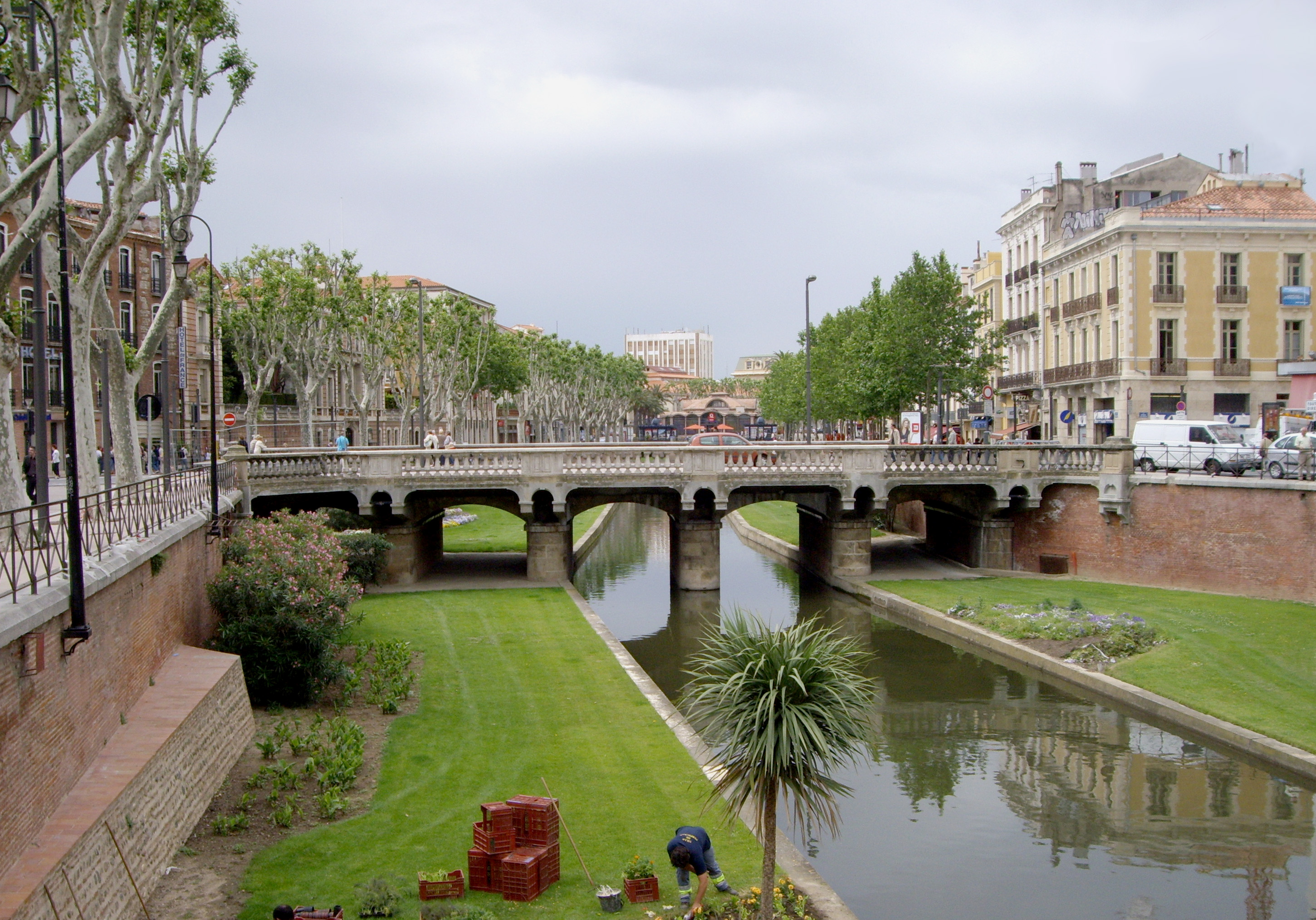 Perpignan (Pyrénées-Orientales, France) : The Pont Magenta on the Basse.